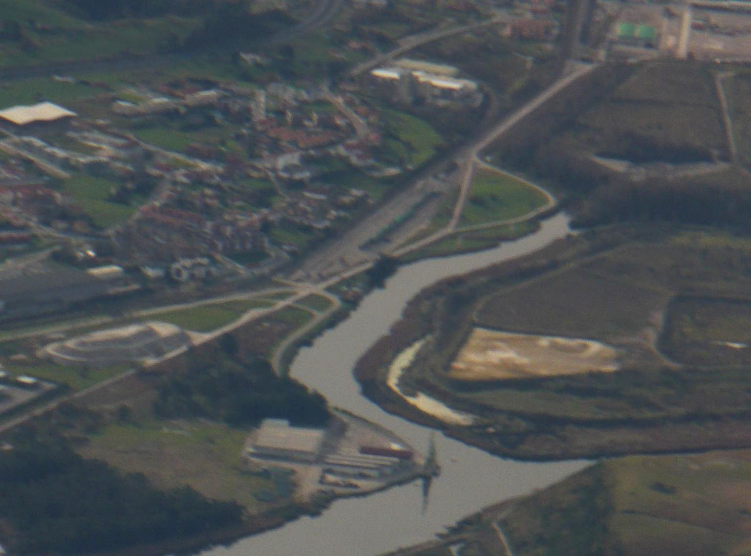 Requejada (Cantabria) and its port from an airliner.